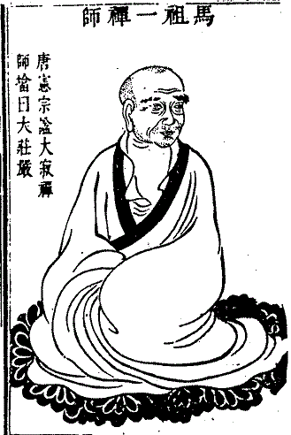 Chan Master Mazu Daoyi